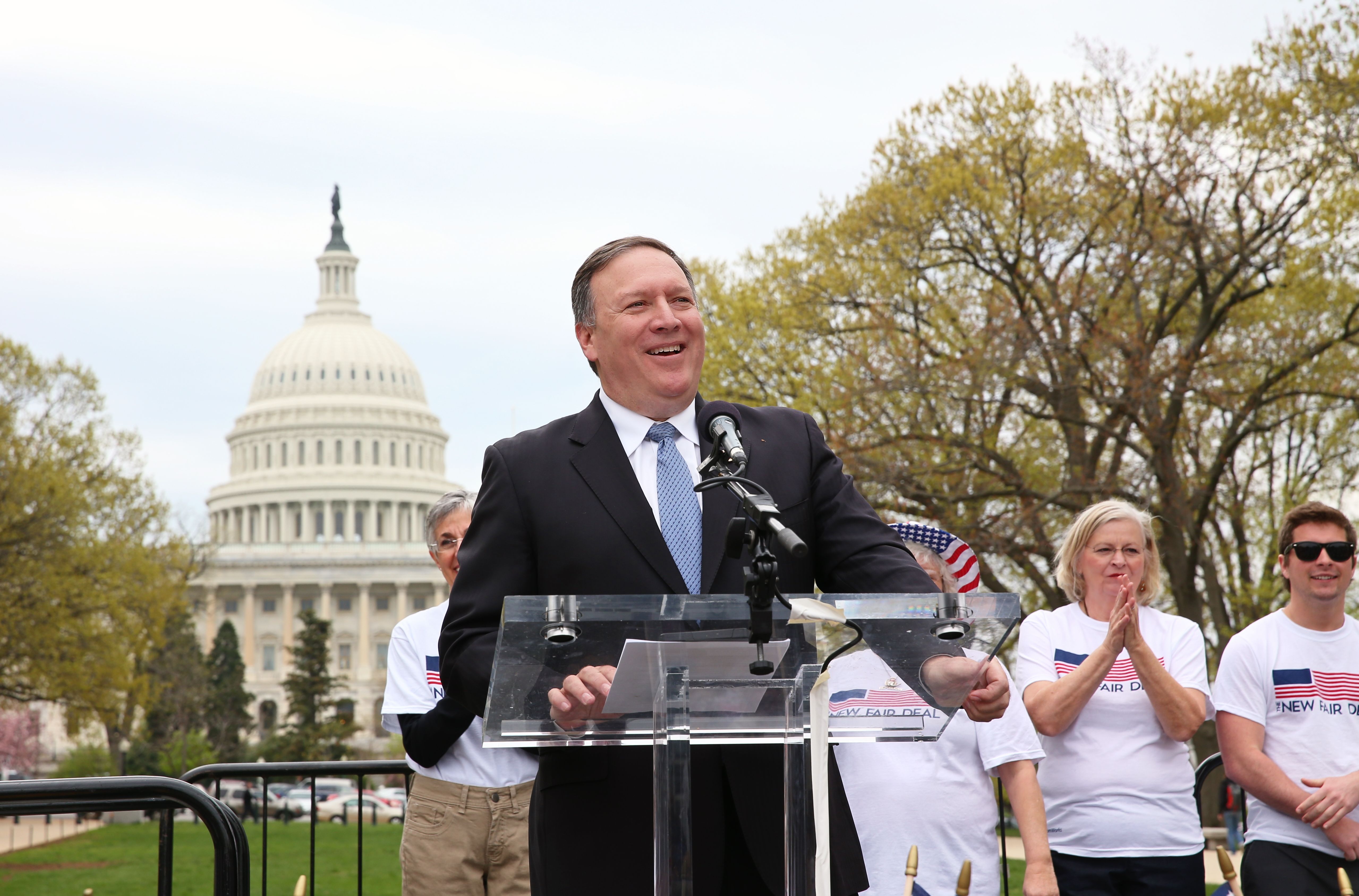 Freedomworks New Fair Deal Rally in Upper Senate Park outside the US Capitol, Washington DC